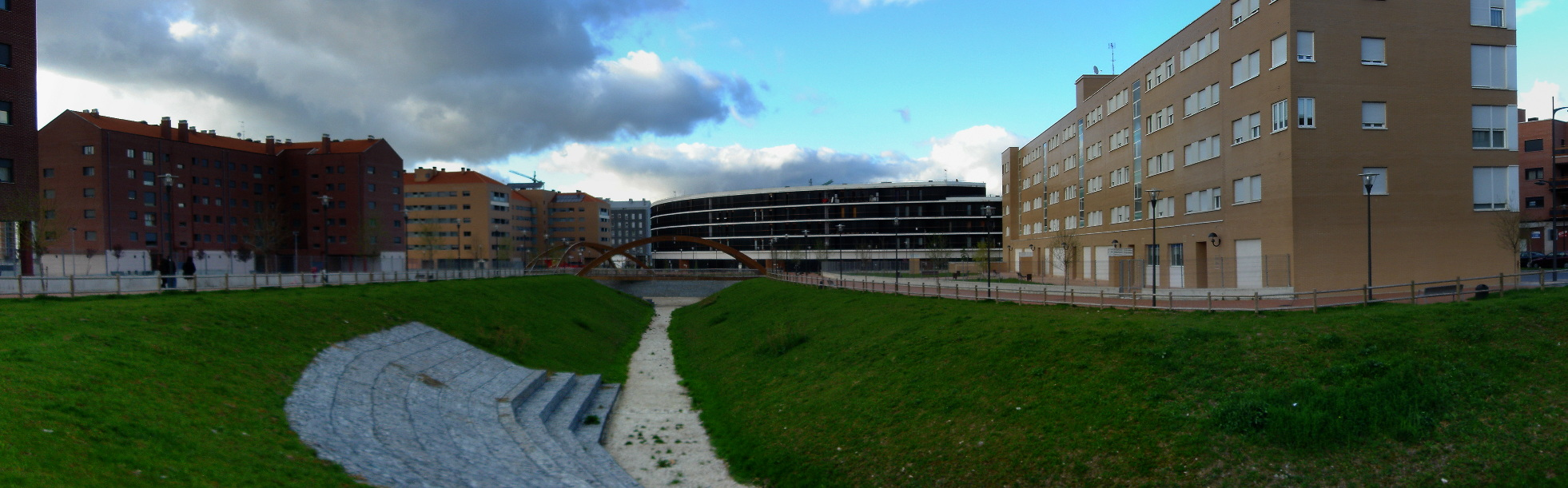 Zabalgana neighbourhood (Vitoria-Gasteiz, Araba, Basque Country, Spain)